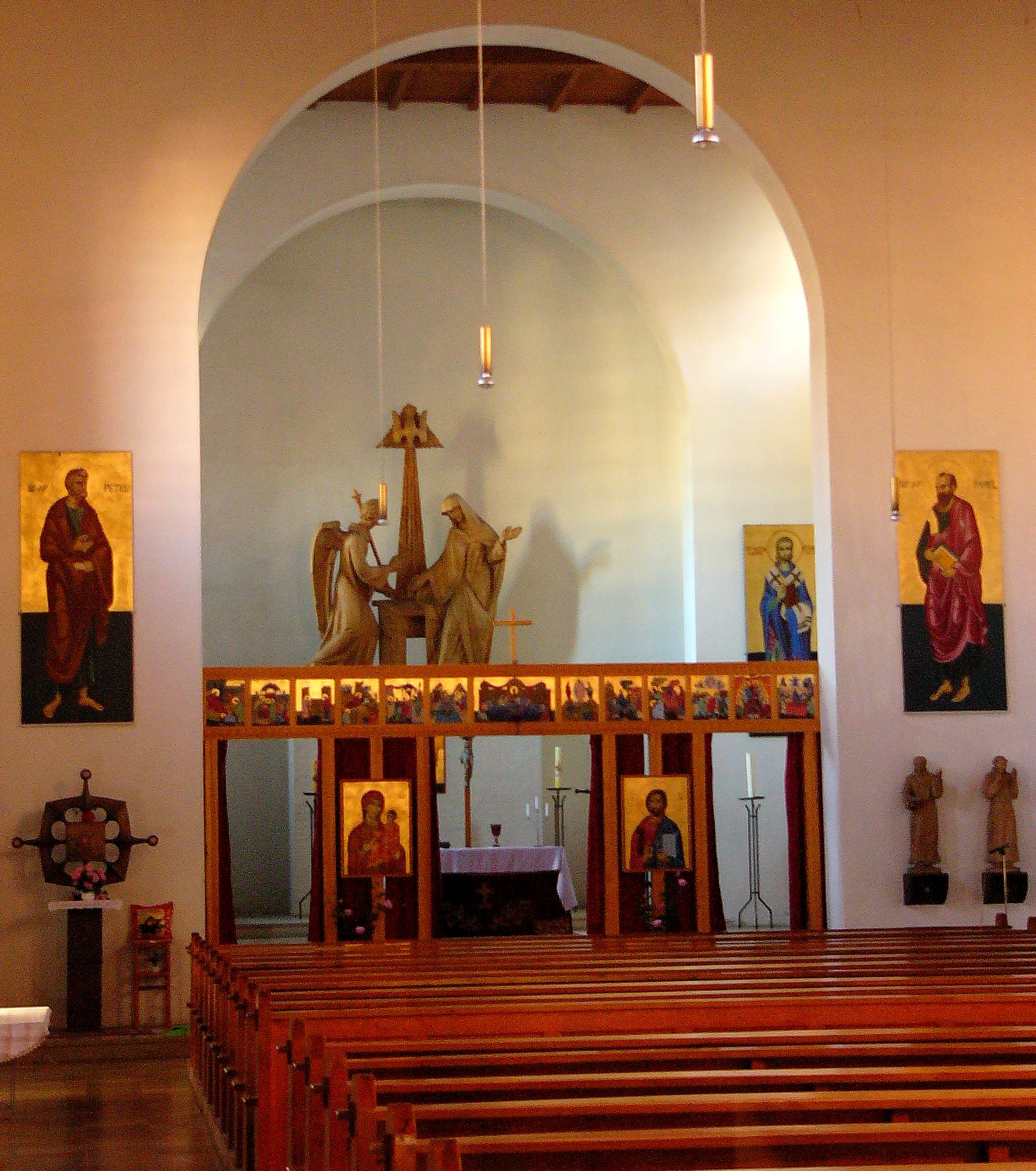 This is a photograph of an architectural monument.